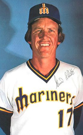 Professional baseball player Glenn Abbott